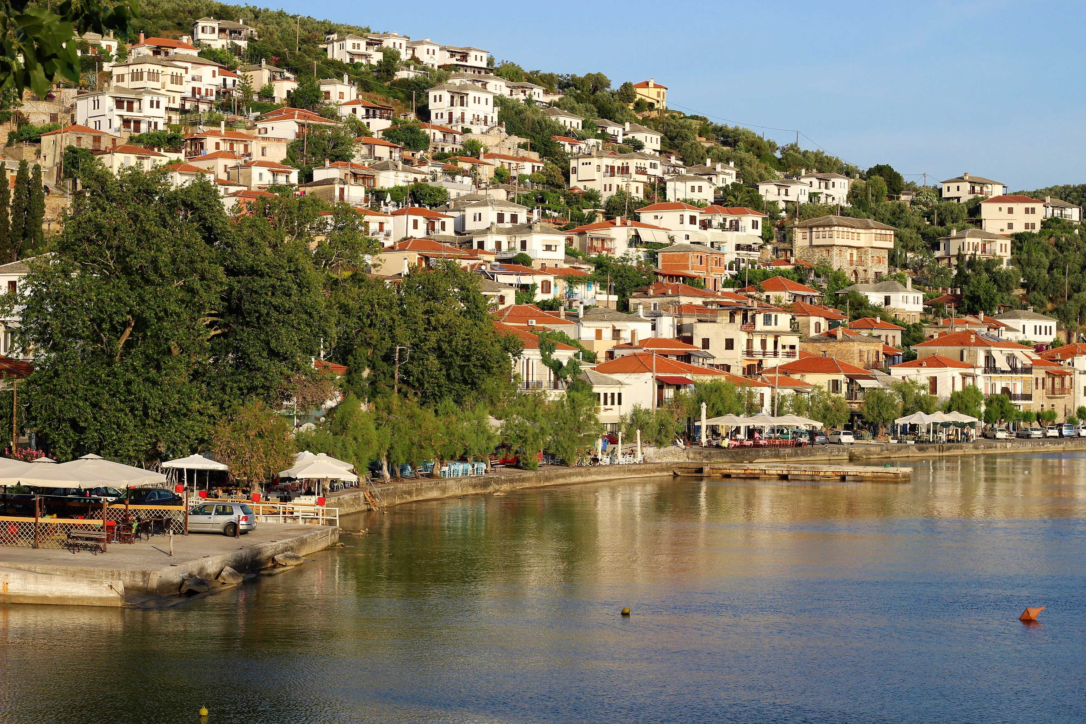 The lovely harbour of Afissos in the sunset light